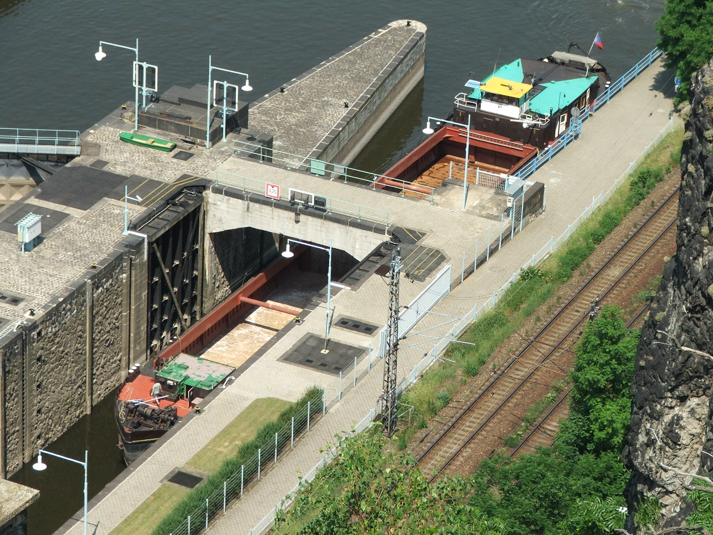 Cargo ship in lock of dam Střekov on Labe in Czech Republic